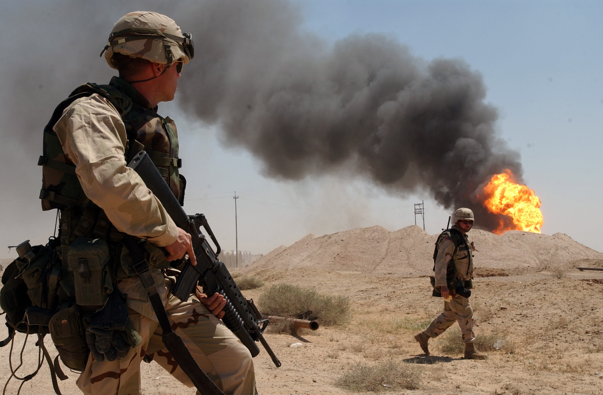 Southern, Iraq (Apr. 2, 2003) -- U.S. Army Sgt. Mark Phiffer stands guard duty near a burning oil well in the Rumaylah Oil Fields in Southern Iraq. Coalition forces have successfully secured the southern oil fields for the economic future of the Iraqi people and are in the process of extinguishing the burning wells that were set ablaze in the early stages of Operation Iraqi Freedom. Operation Iraqi Freedom is the multi-national coalition effort to liberate the Iraqi people, eliminate Iraq's weapons of mass destruction and end the regime of Saddam Hussein. U.S. Navy photo by Photographer's Mate 1st Class Arlo K. Abrahamson. (RELEASED)